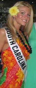 Lacie Lybrand (Miss South Carolina USA 2006), in a picture taken during a party prior to the Miss USA 2006 pageant.